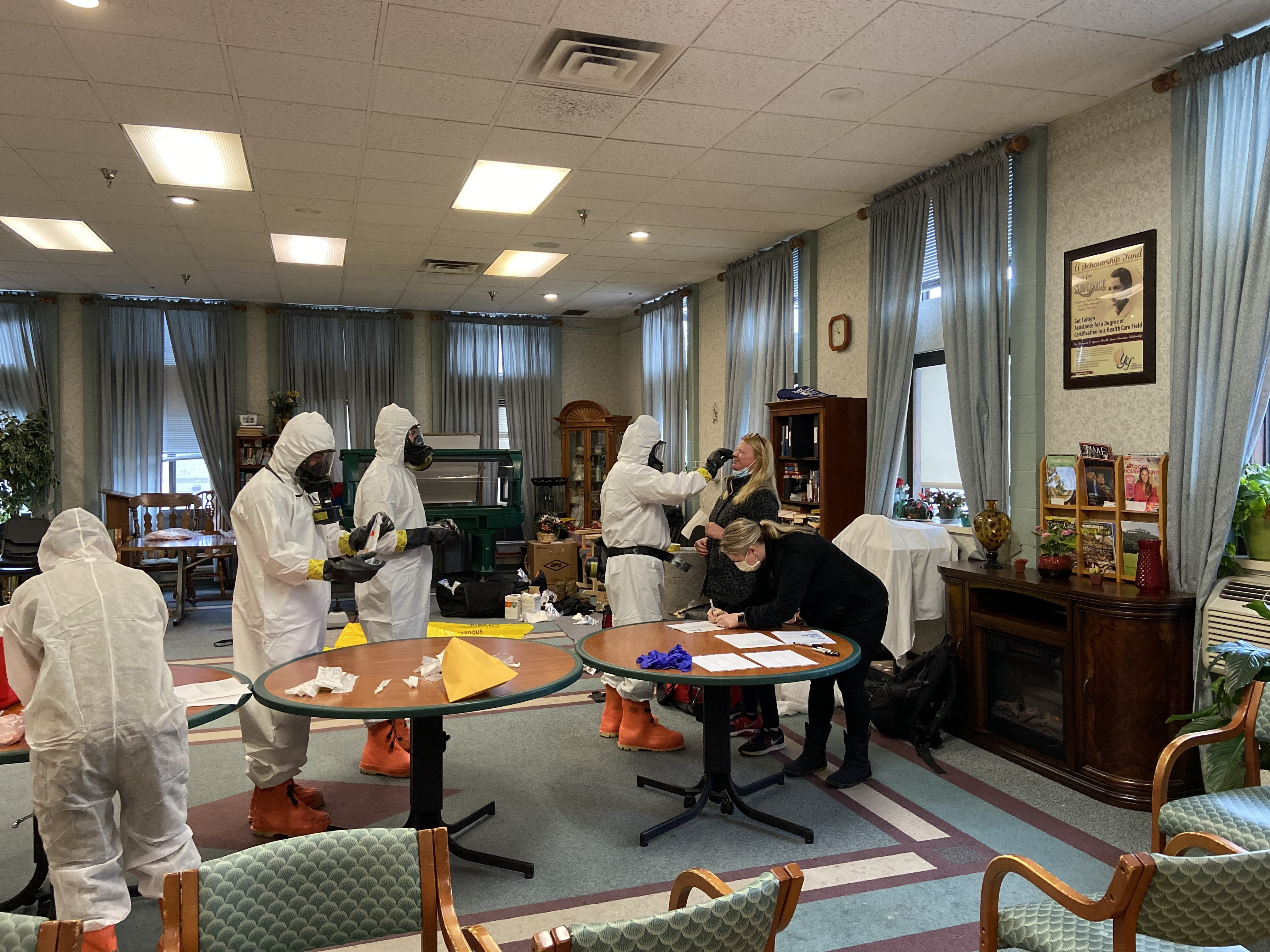 Members of the West Virginia National Guard's Chemical, Biological, Radiological, Nuclear and High Yield Explosive (CBRNE) Battalion and 35th Civil Support Team (CST) provide assistance for COVID-19 swabbing for the staff of a nursing facility March 23, 2020, in Morgantown, West Virginia. West Virginia CBRN experts have been providing assistance to the State of West Virginia in response to the current COVID-19 outbreak. (U.S. Army National Guard photo by Sgt. Davis Rohrer)